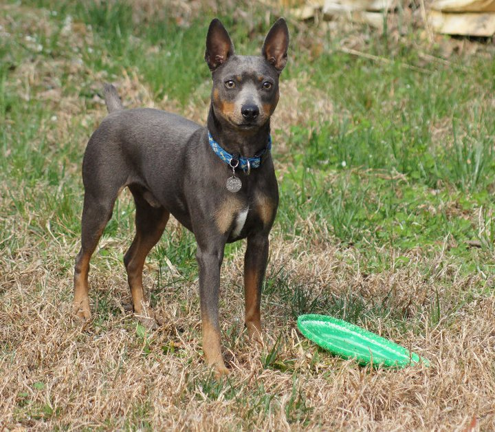 American Hairless Terrier blue tri coated male with frisbee